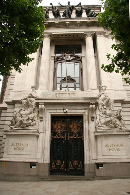 Australia House Entrance to Australia House